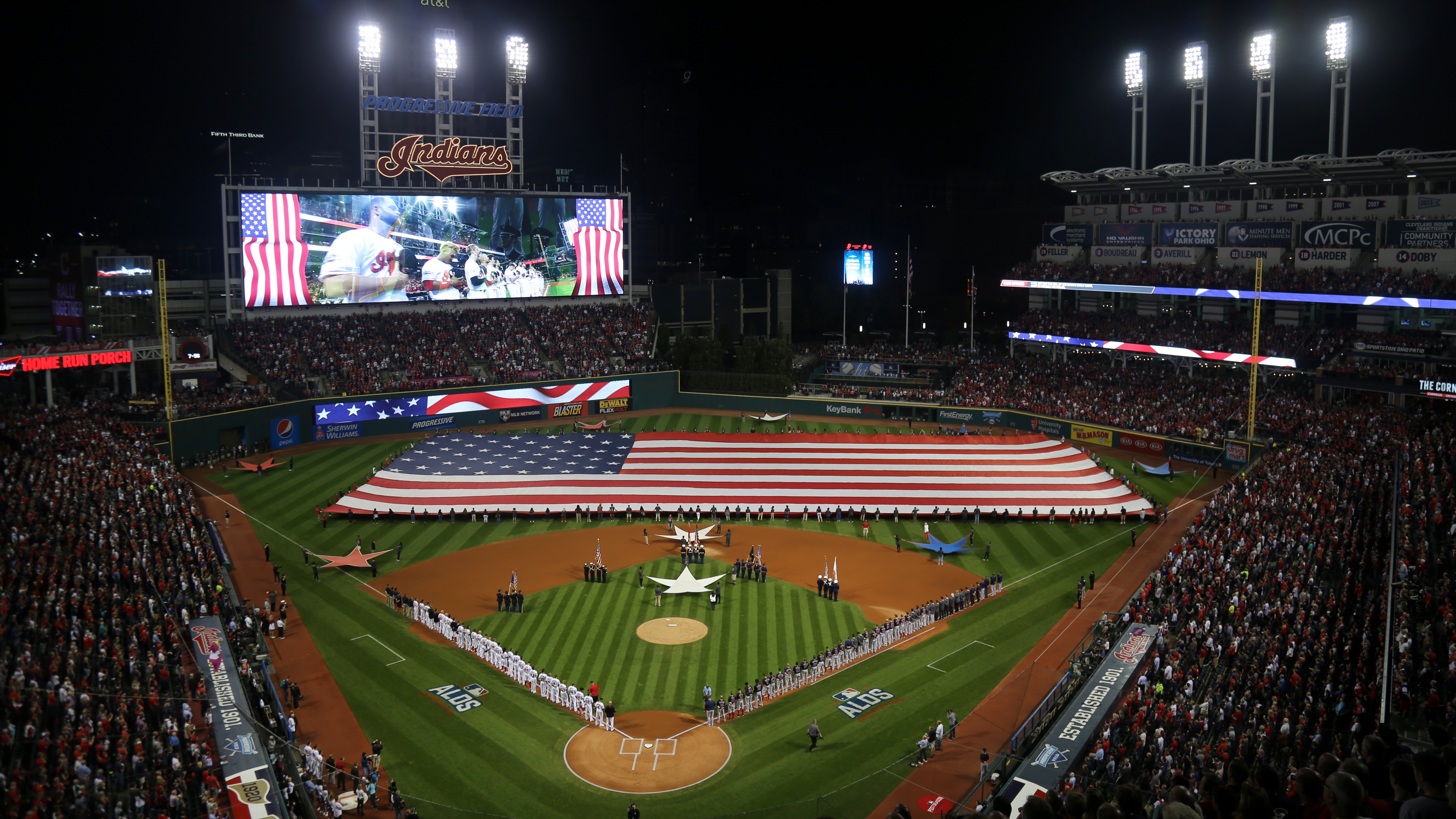 Progressive Field in all its glory for ALDS Game 1 between the Red Sox and Indians.